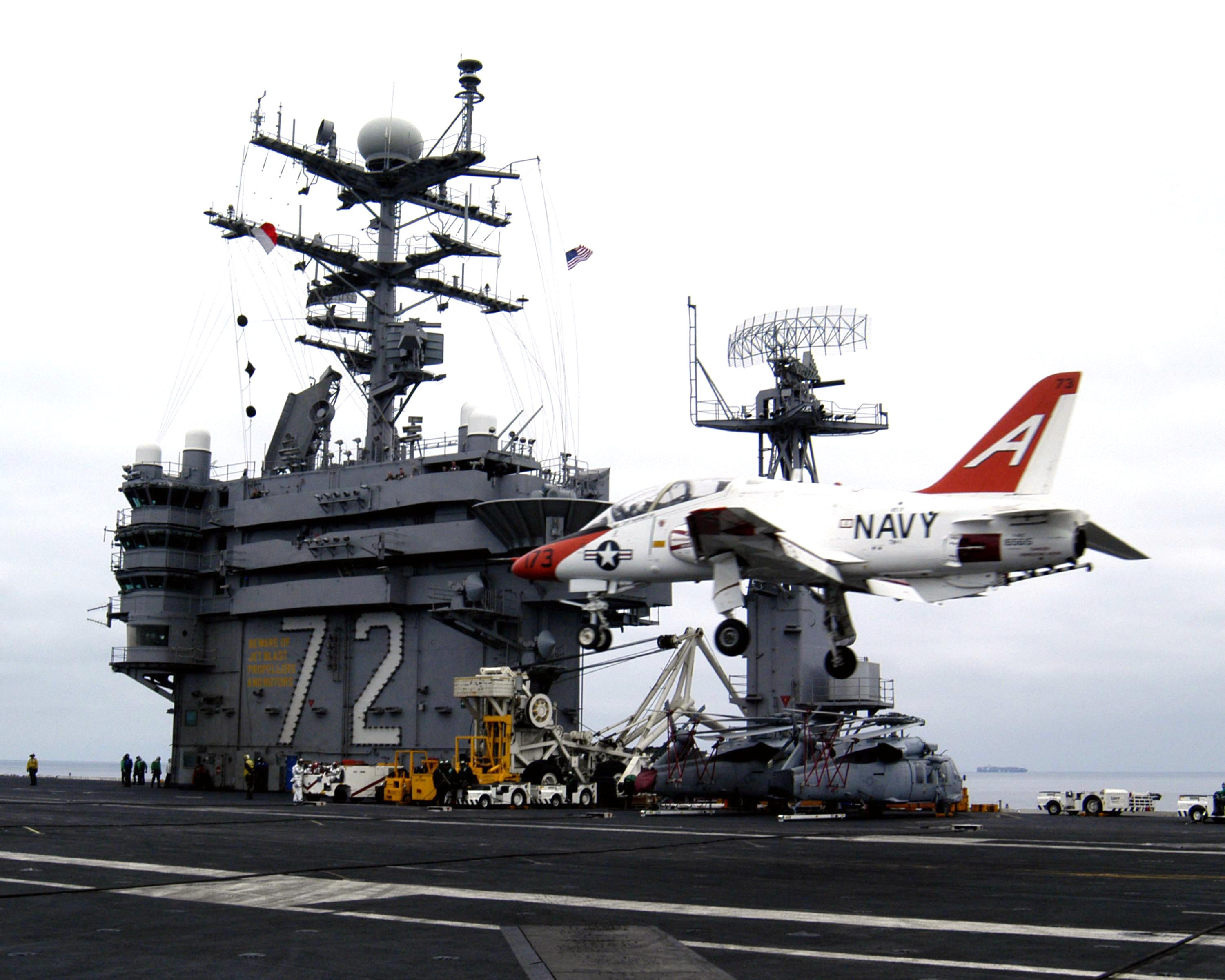 Pacific Ocean (June 23, 2004) - A T-45A Goshawk assigned to Training Air Wing Two (TW-2) attempts a “touch and go” landing on the flight deck aboard the Nimitz-class aircraft carrier USS Abraham Lincoln (CVN 72). Lincoln is currently conducting local operations in preparation for an upcoming scheduled deployment after 10 1/2 months of dry docked Planned Incremental Availability (PIA) maintenance. U.S. Navy photo by Photographer’s Mate 3rd Class Tyler J. Clements (RELEASED)